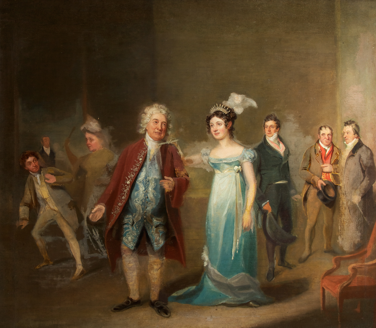 Scene from the farce All the World's a Stage (1777) by Isaac Jackman. The cast includes Richard Suett as Diggery Duckling.[1]